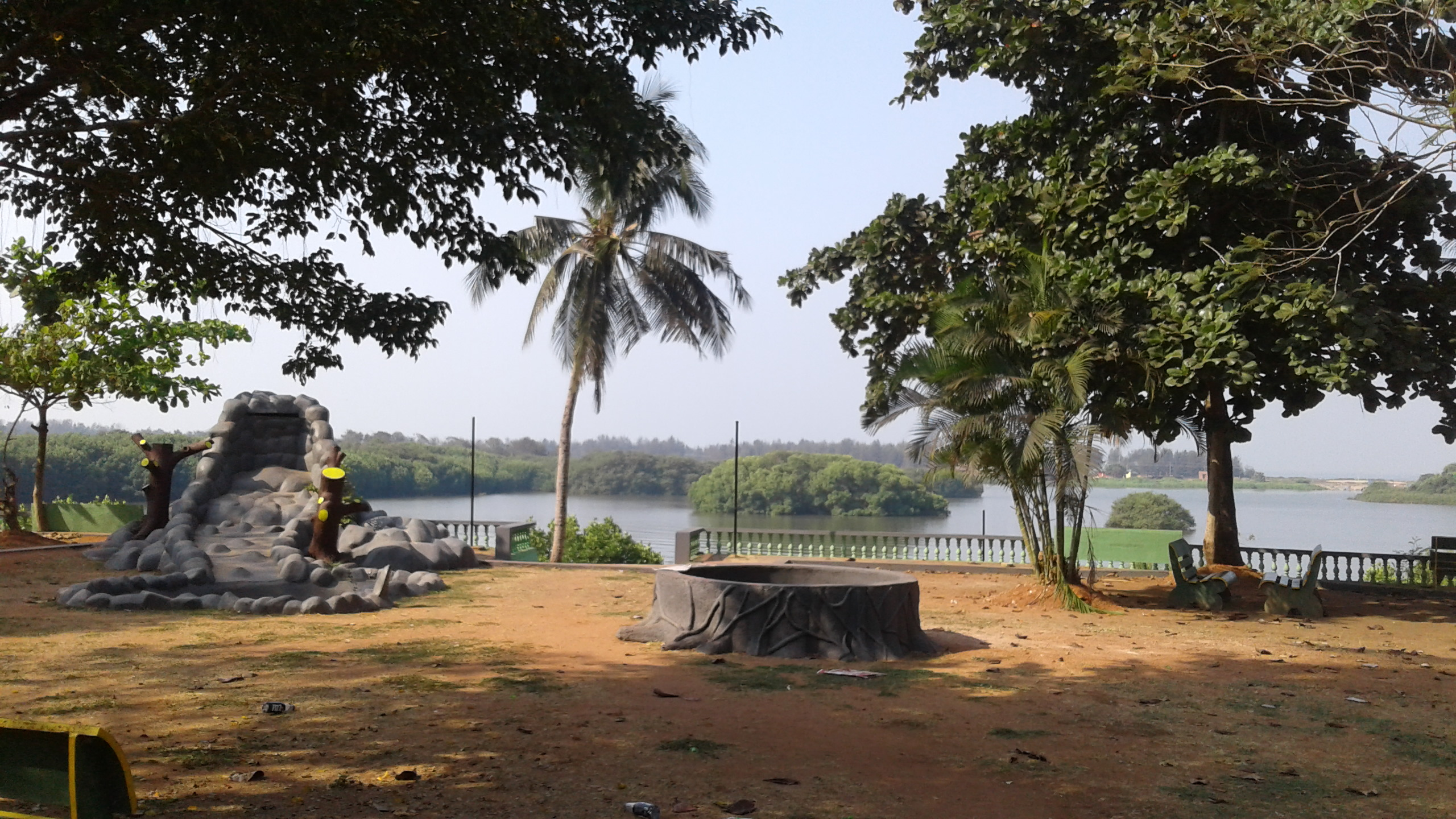 Half a kilometer from the Railway Station at Kasaragod, Kasaragod district, Kerala, India.